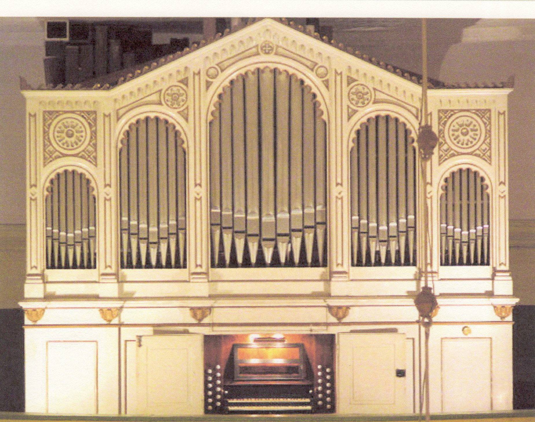 Organ of St. John's Church of Valga, Estonia.